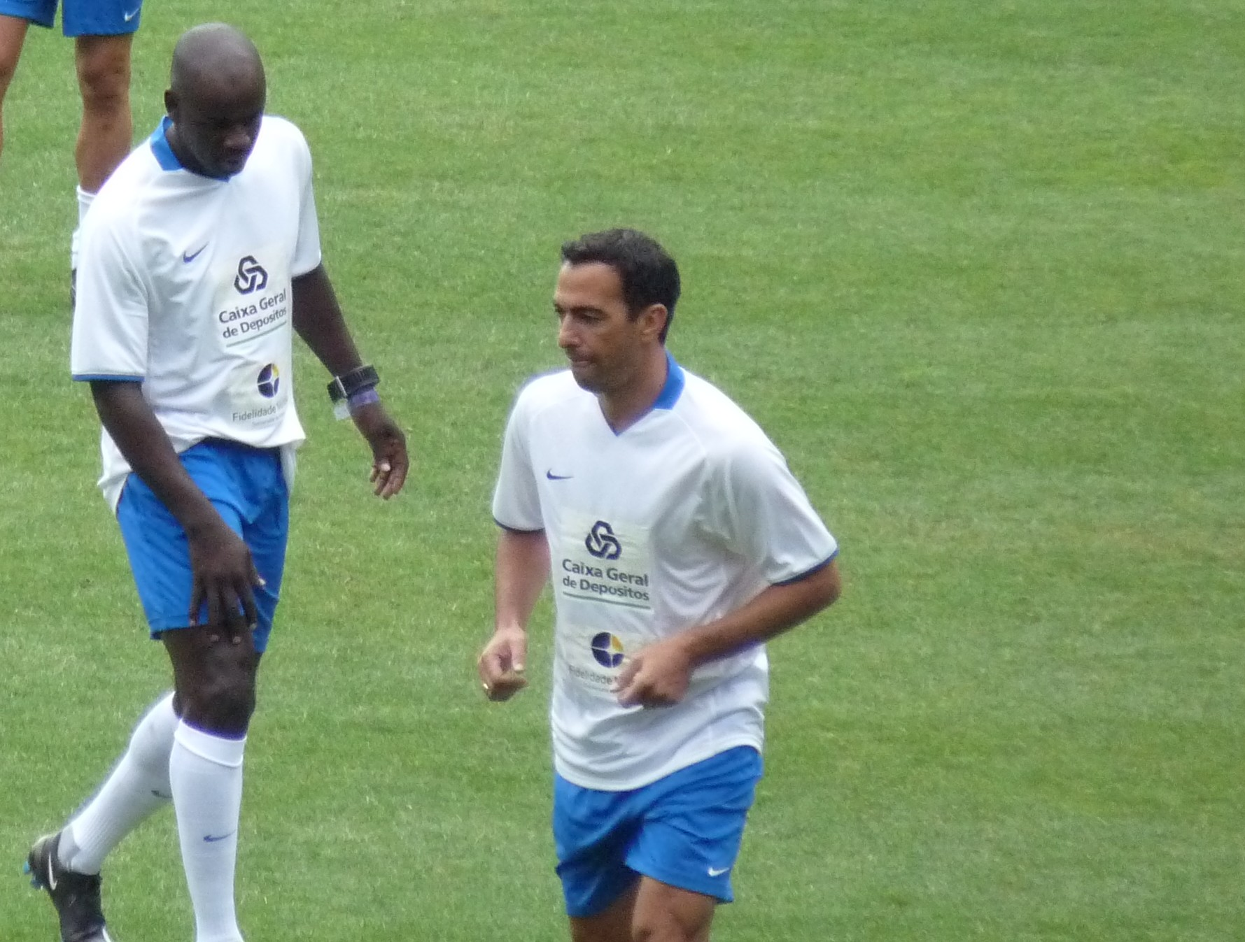 Lilian Thuram and Youri Djorkaeff